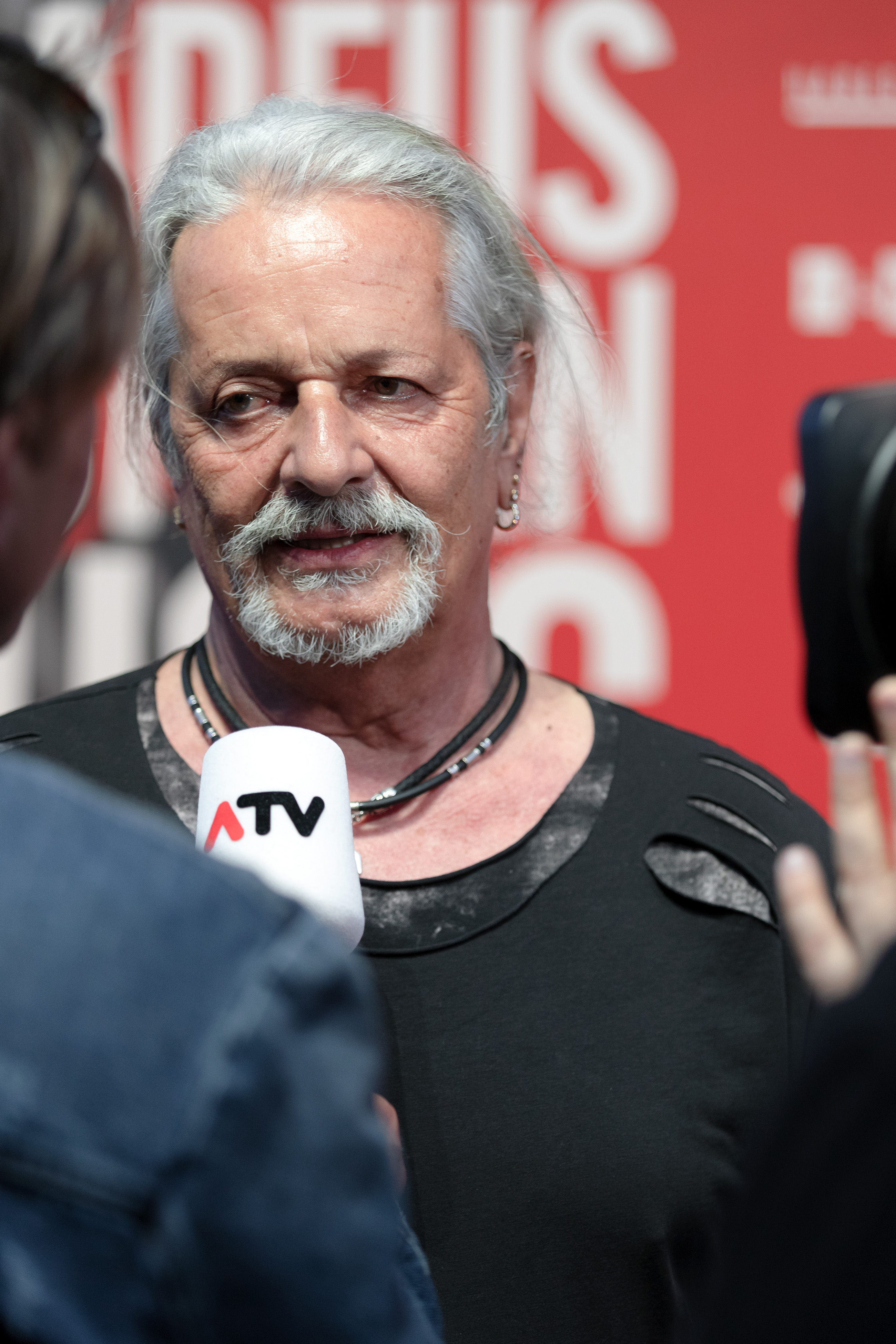 Thomas Spitzer at the Amadeus Austrian Music Award 2019 at Volkstheater in Vienna.